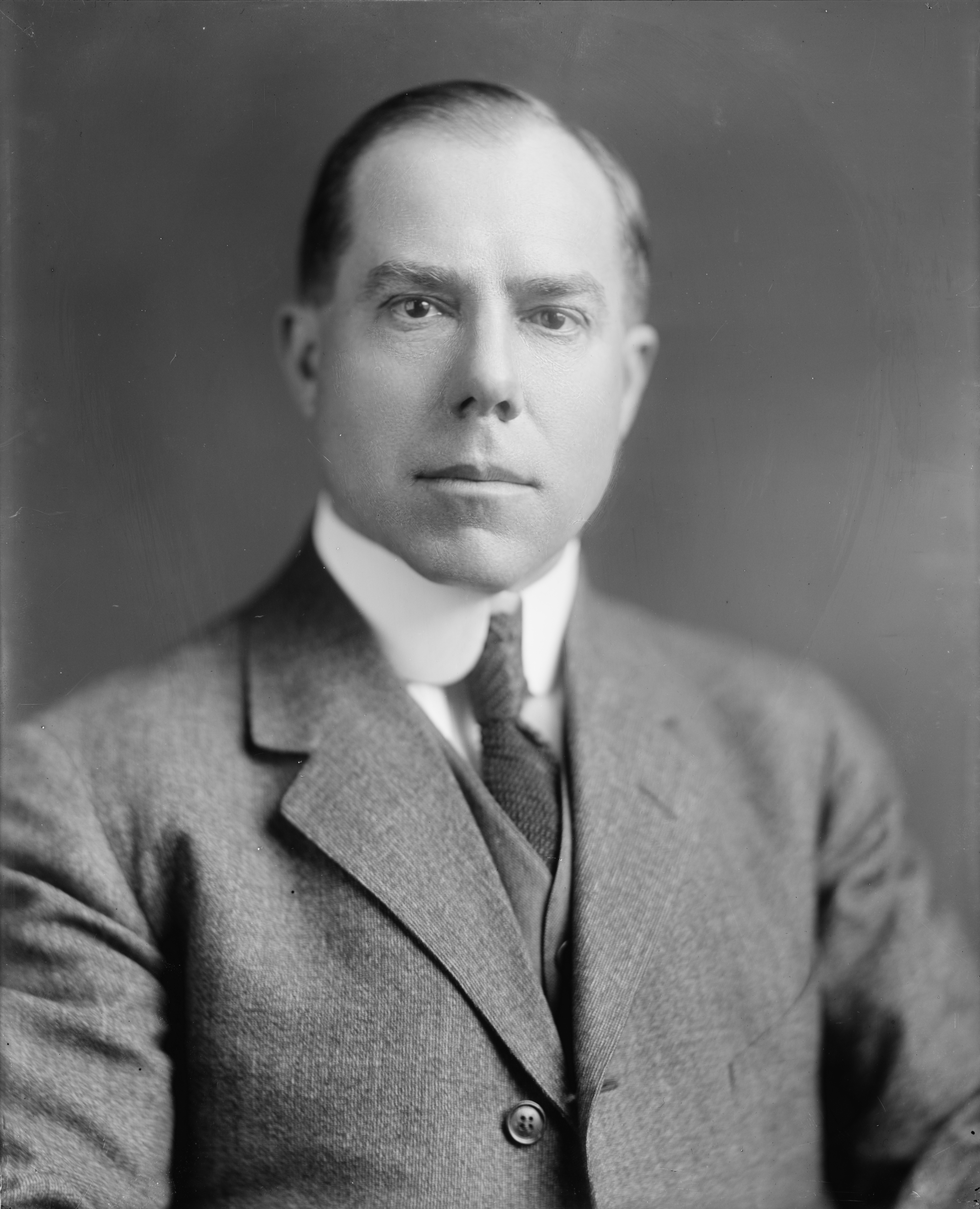 Mulford Winsor (1874-05-31 – 1956-11-05), American newspaperman and Arizona State Senator (1916–20, 1922–1928). President of Arizona State State (1925–8).